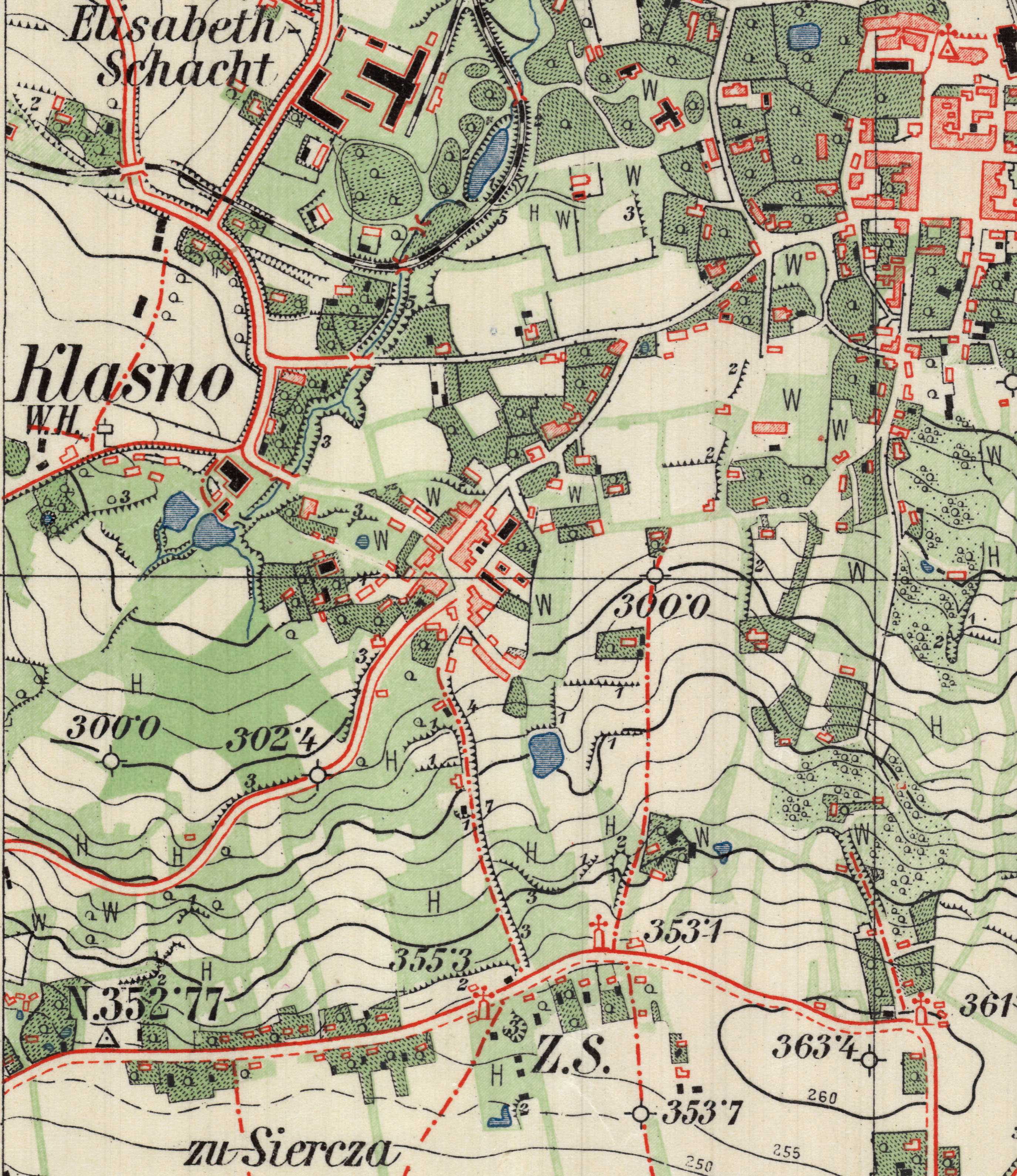 Jewisch Settlement of Klasno near Wieliczka, Galicia, Poland